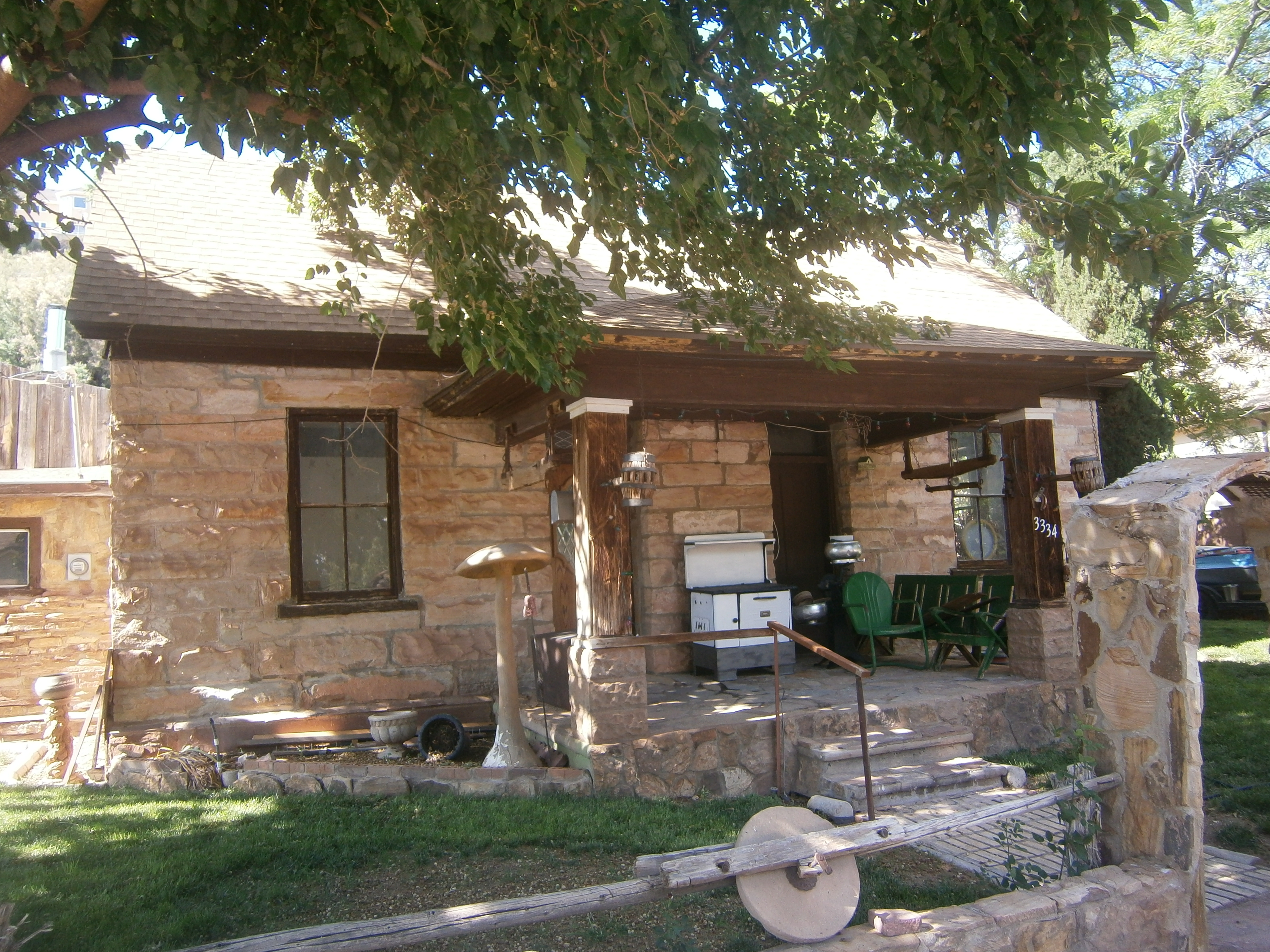 The Frederick, Jr., and Mary F. Reber House, a historic home in Santa Clara, Utah, United States.